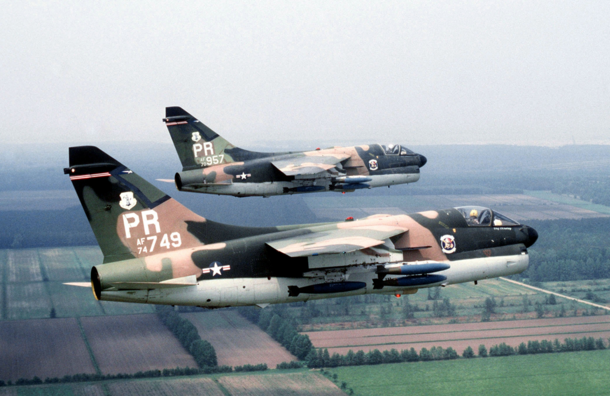 Two LTV A-7D Corsair II aircraft (s/n 70-0957, 74-1749) assigned to the 198th Tactical Fighter Squadron, 156th Tactical Fighter Group, Puerto Rico Air National Guard, during exercise "Solid Shield 78" on 1 May 1978. The aircraft are armed with Mark 82 227 kg practice bombs.